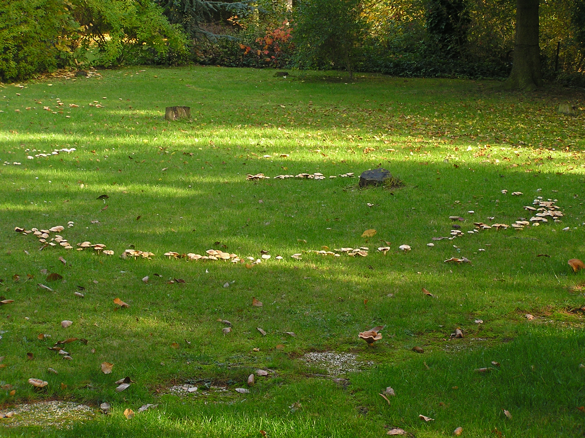 Fairy ring in Usingen (Taunus)